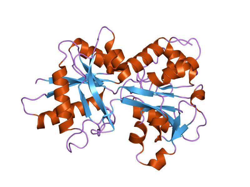 Cartoon representation of the molecular structure of protein registered with 1oqh code.